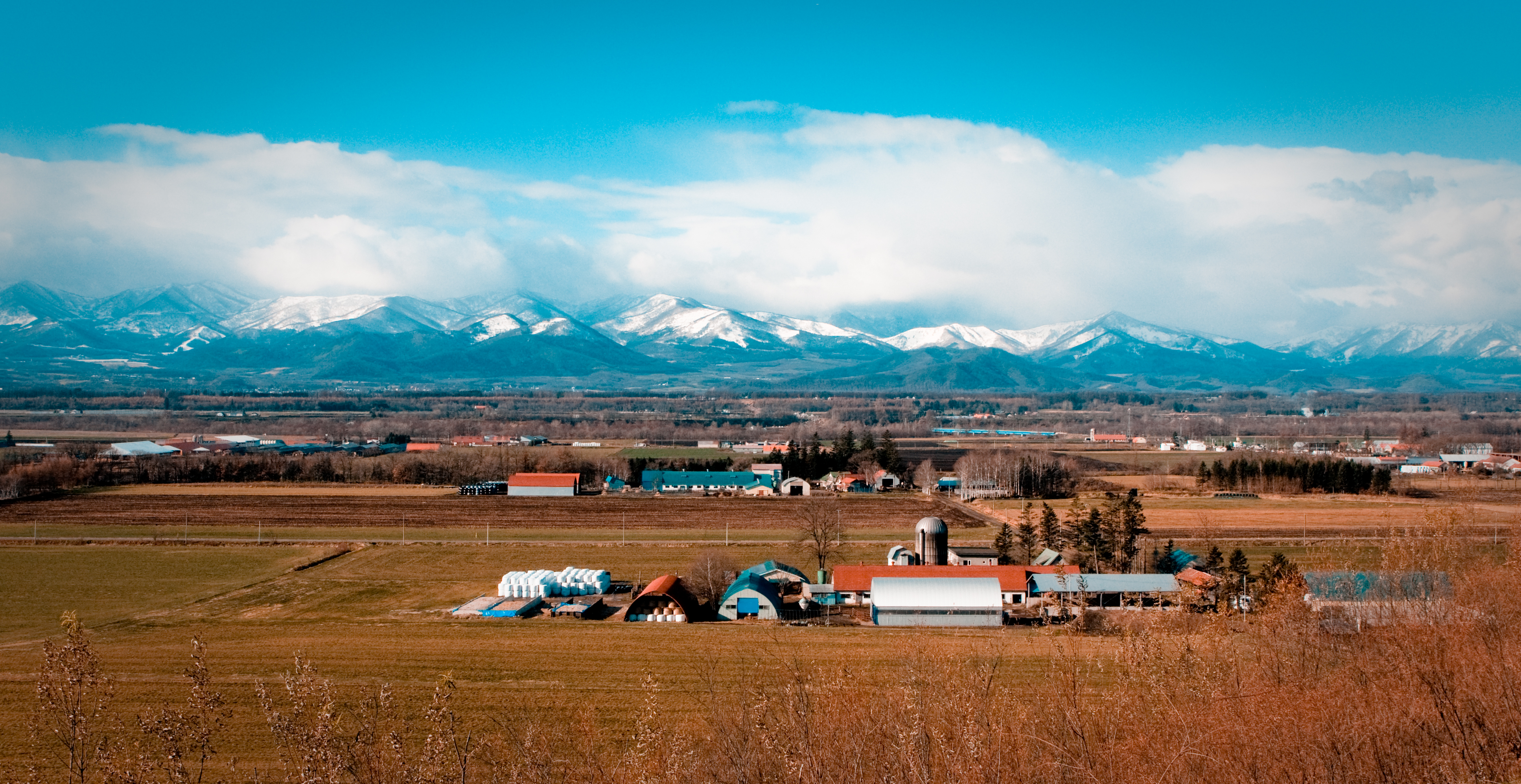 Picture of Shimizu farmlands in foreground, with Hidaka Mountain Range in the background. Picture taken from Shimizu Panoramic Park.